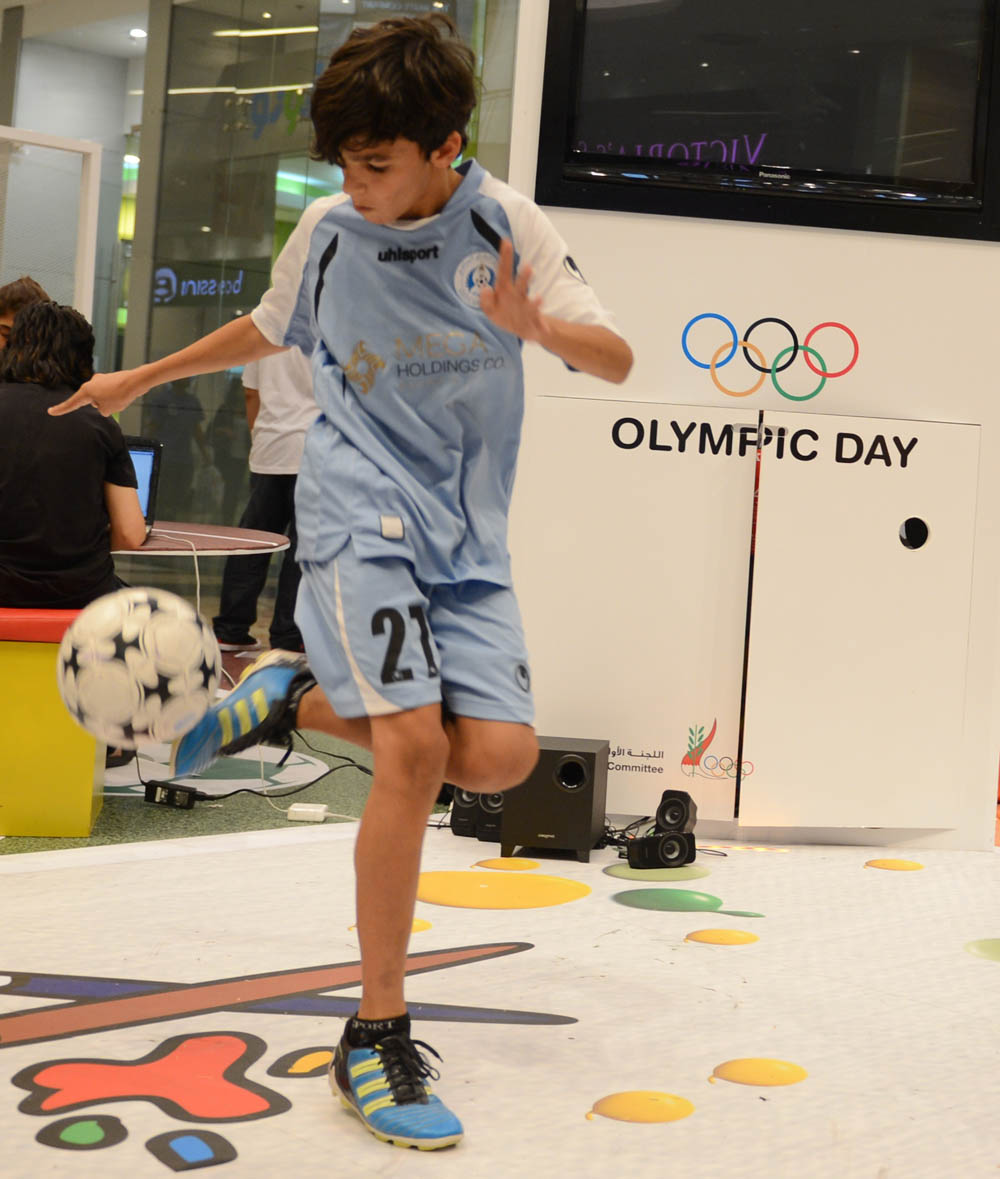 Bahrain Olympic Day